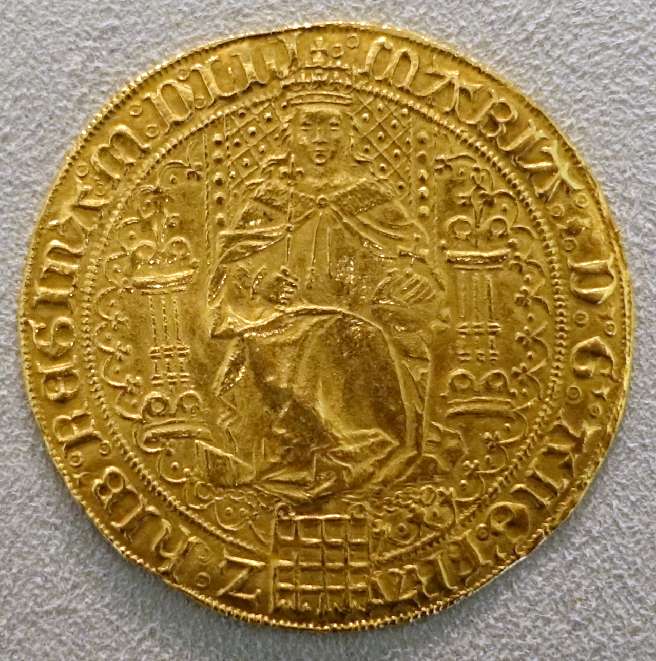 Exhibit in the Bode-Museum, Berlin, Germany. This work is in the public domain because the artist died more than 100 years ago.